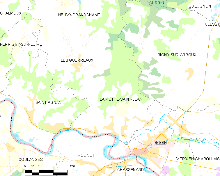 Map of French municipality